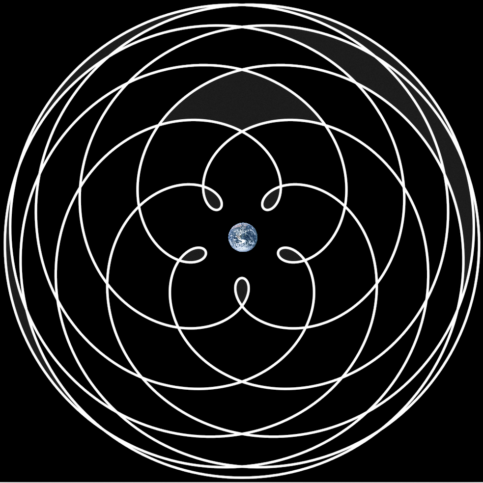 Geocentric view of Venus orbit. The choice of Earth as the reference frame leads to a complex realization, but it's still a valid choice.